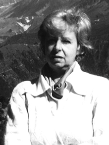 Picture of Suzanne Martel, author, taken by a family member in the late '70.